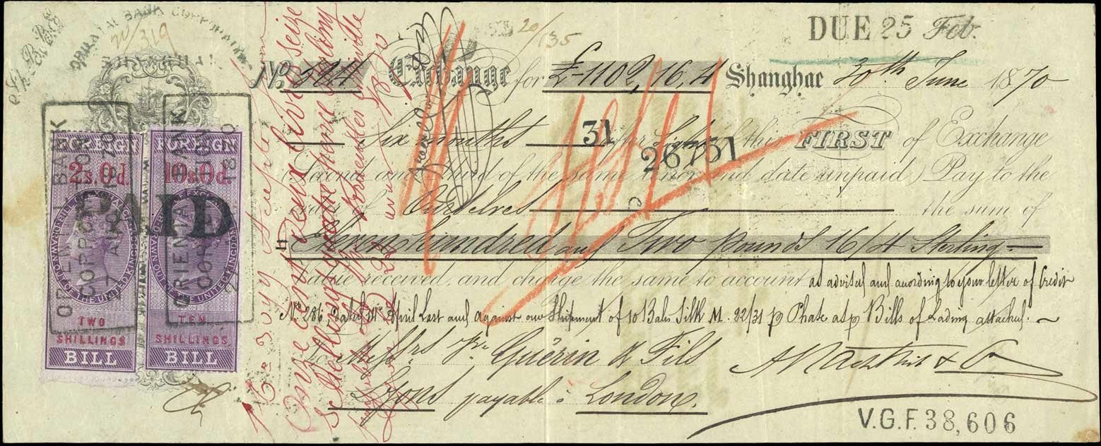 British Foreign Bill stamps on 1870 Oriental Bank Corporation Bill of Exchange.